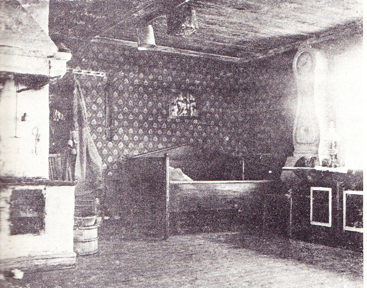 The main room in the cottage of Daniel Dunder, victim of a poisoning in december 1909. Hedens village, Leksand, Sweden.